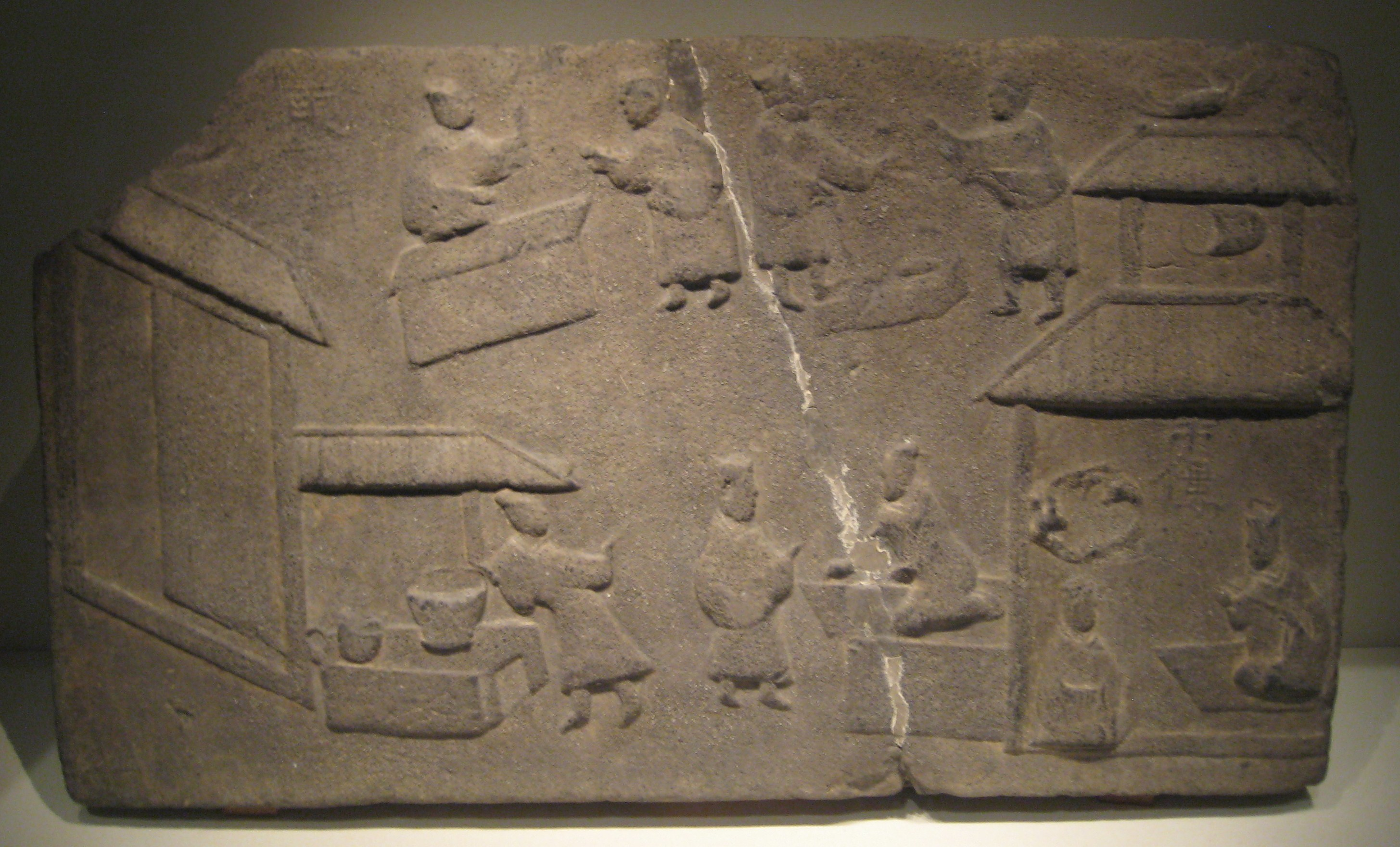 Brick relief depicting a market scene from the Eastern Han Dynasty. Unearthed at Guanghan, Sichuan Province.